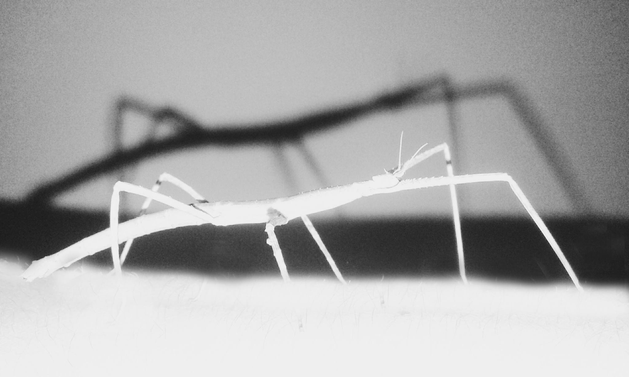 Stick insects are very interesting creatures. These insects look like stick because that's their adaptation, which is caused by natural selection.